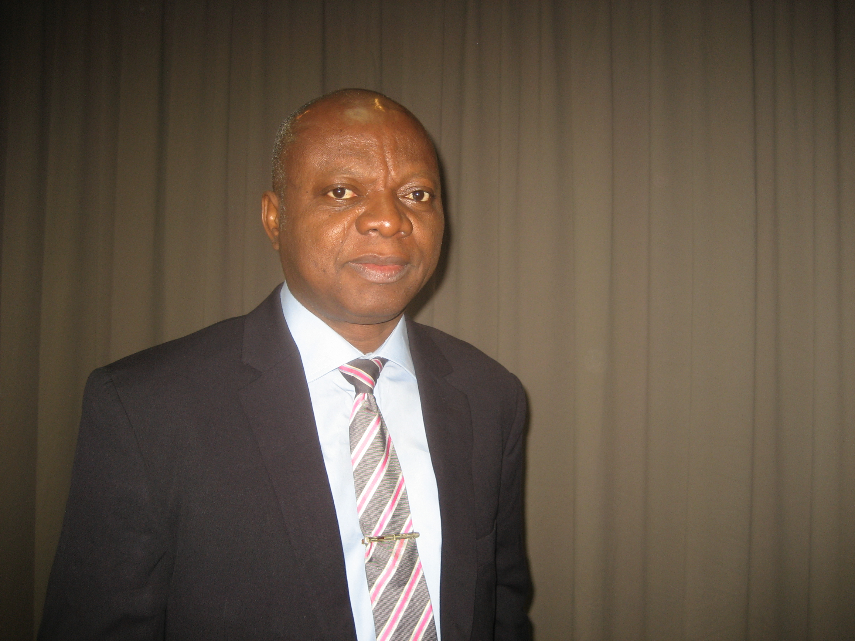 Prof. Abel Idowu Olayinka of Ibadan University (Nigeria), at th Codesria Conference on Open Access in Dakar (Senegal), 30 March 2016